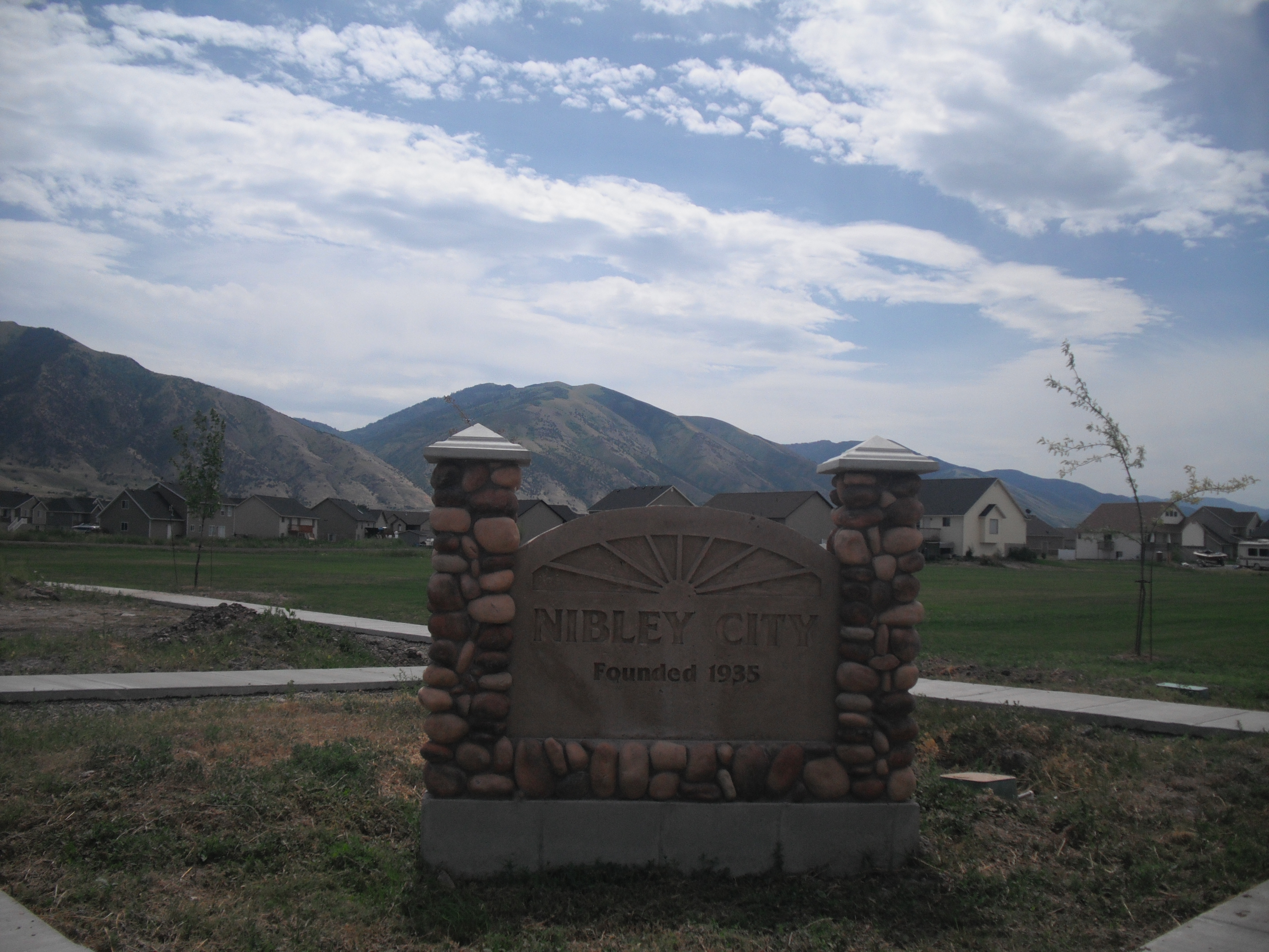 A view of Nibley, Utah from the North.